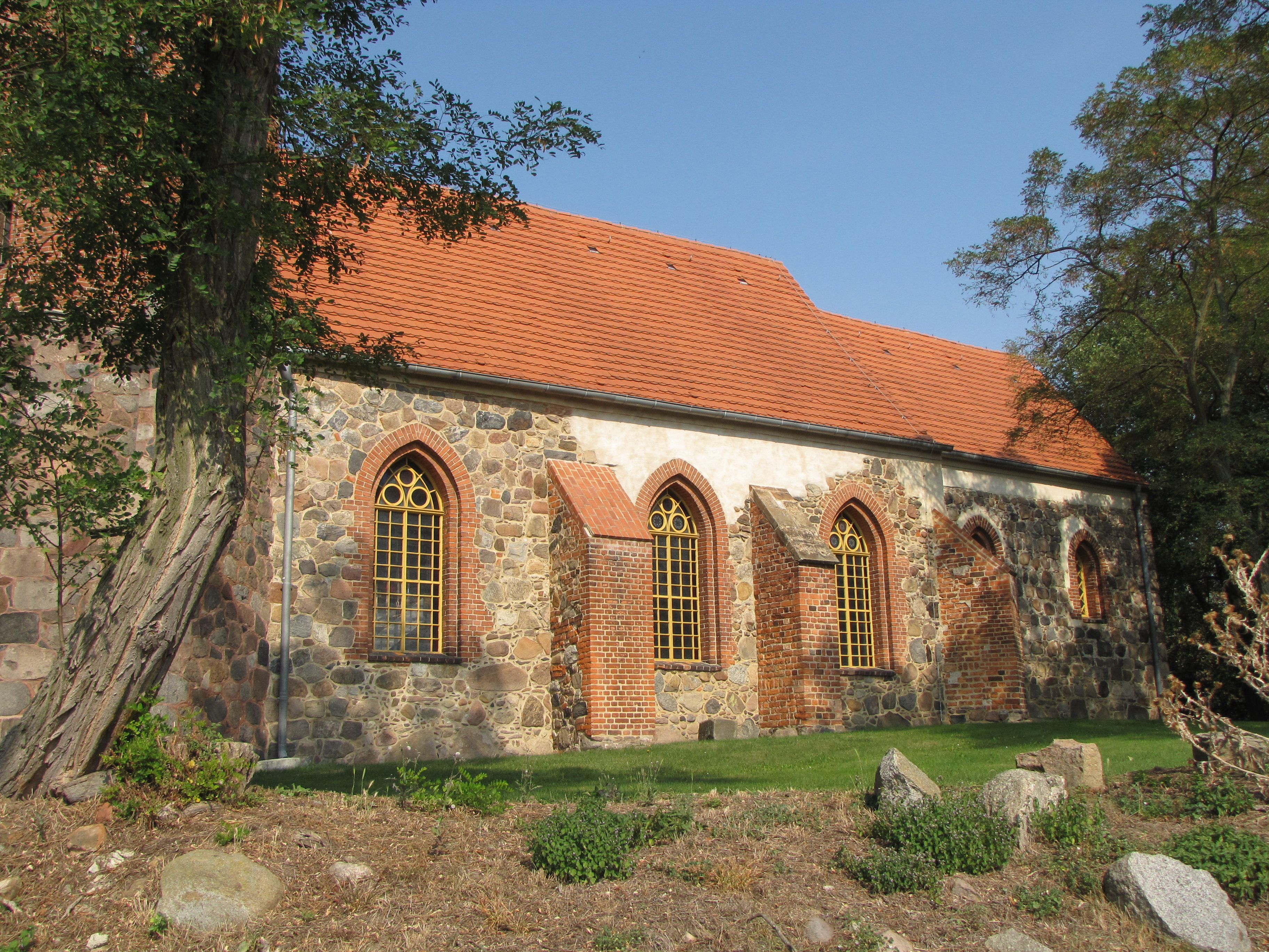 Dorfkirche Bochow, Gemeinde Niedergörsdorf, Lkr. Teltow-Fläming, Brandenburg, Südseite der Kirche mit Schiff und eingezogenem Chor, Feldsteinmauerwerk